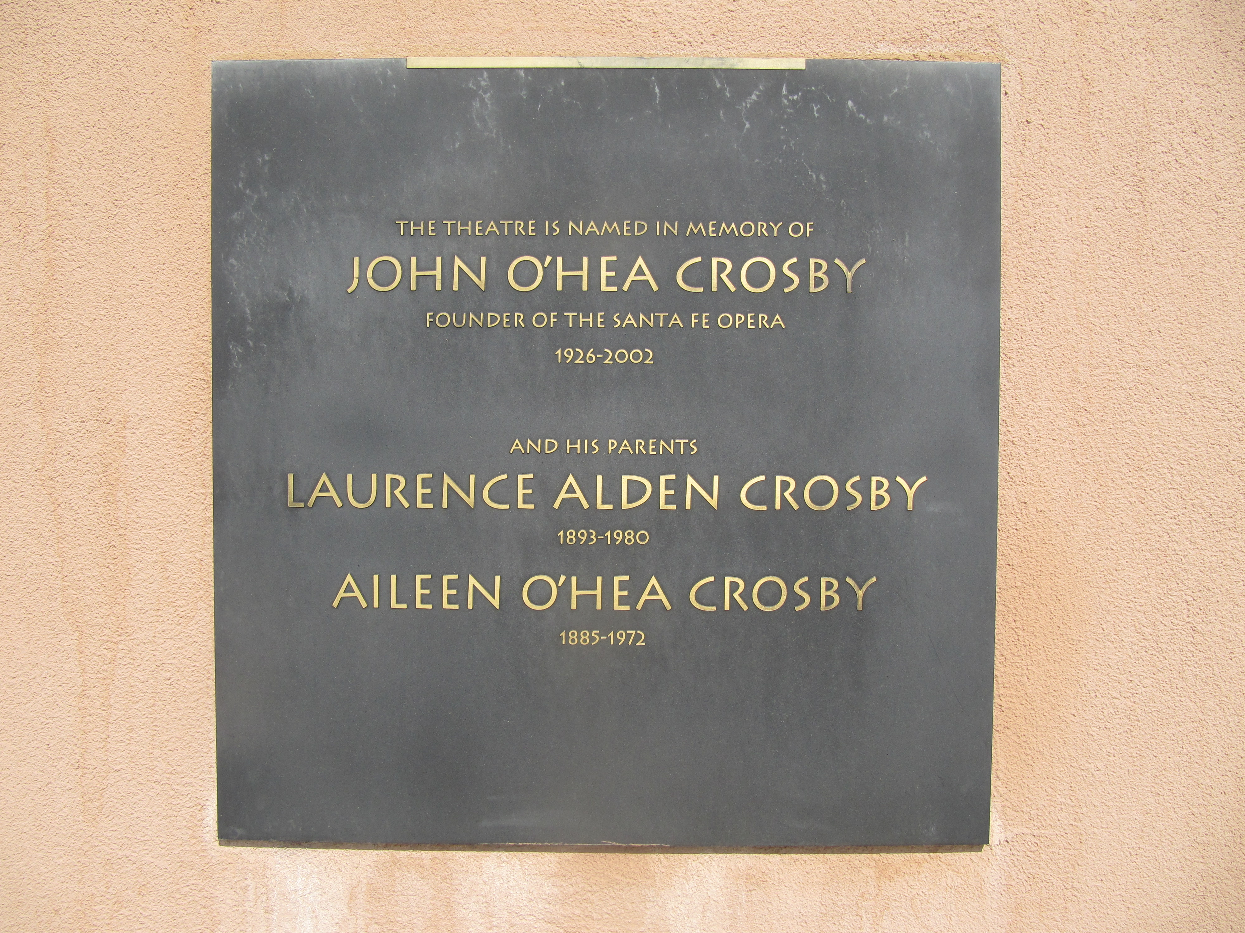 Plaque on the terrace at the Santa Fe Opera, commemorating the contributions of founding director John Crosby and his parents, Lawrence and Aileen